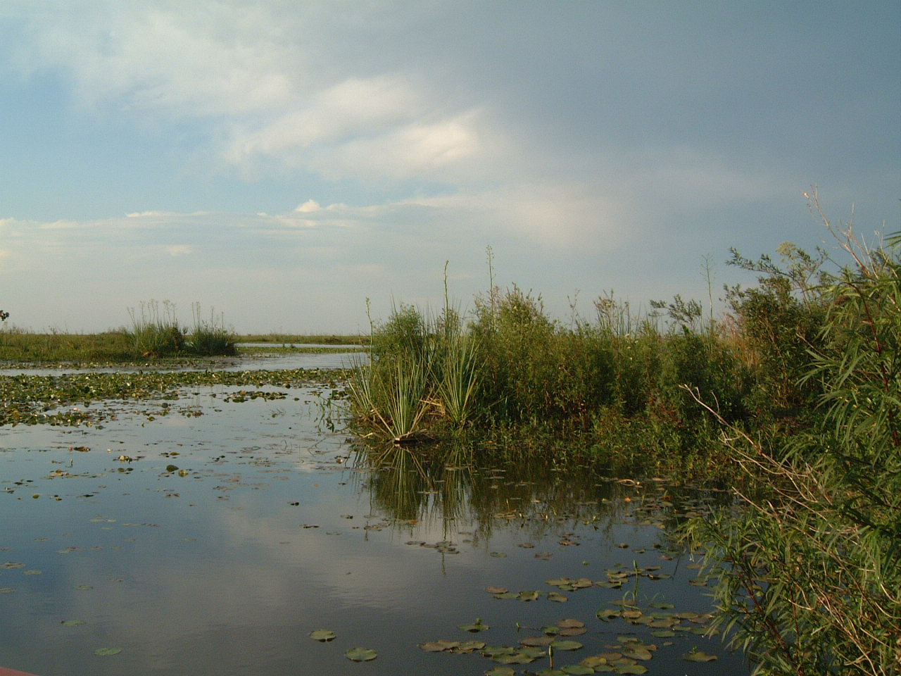 Iberá marshes (Argentina)